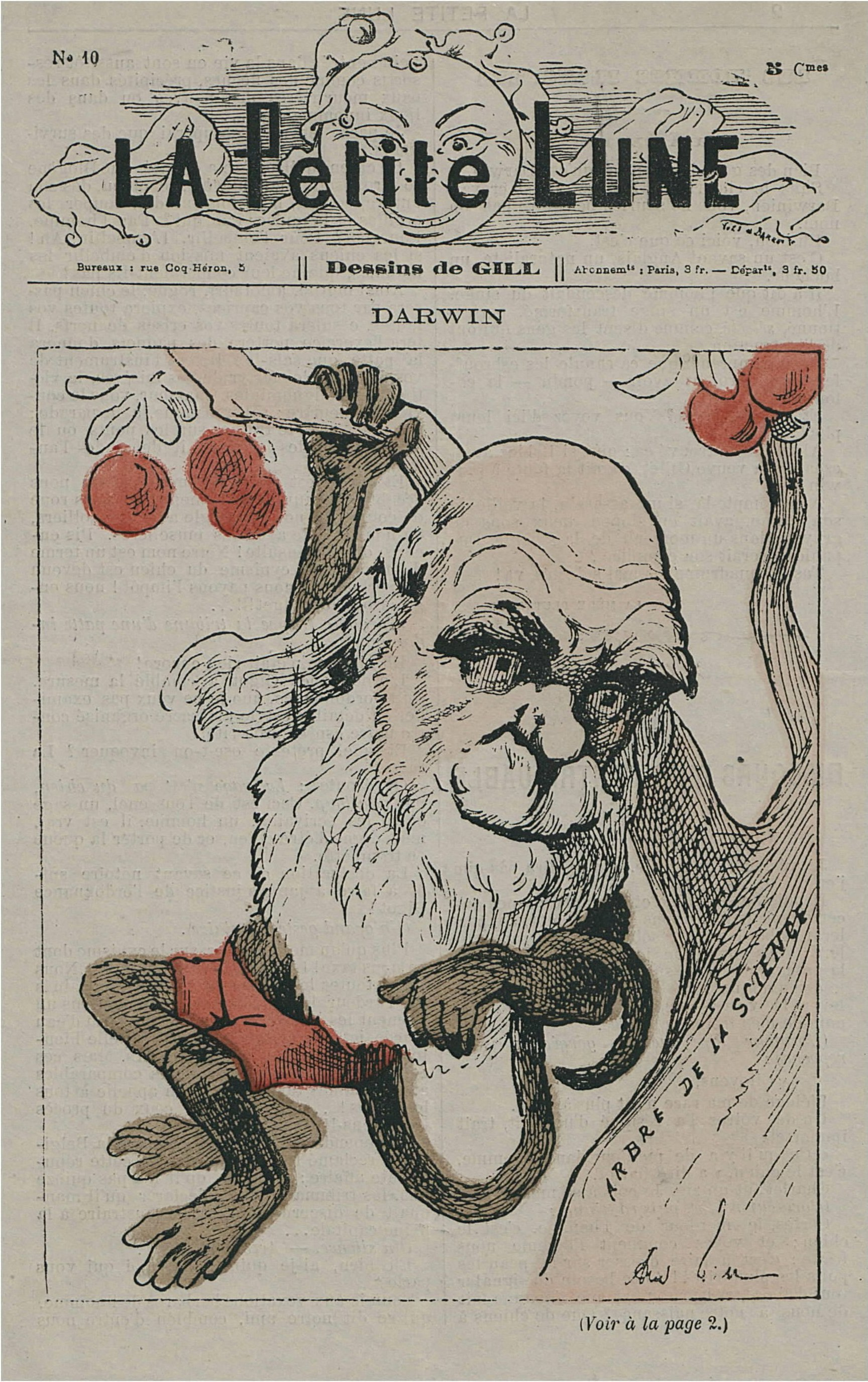 Caricature of Charles Darwin as a monkey on the cover of La Petite Lune, a Parisian satirical magazine published by André Gill from 1878 to 1879.